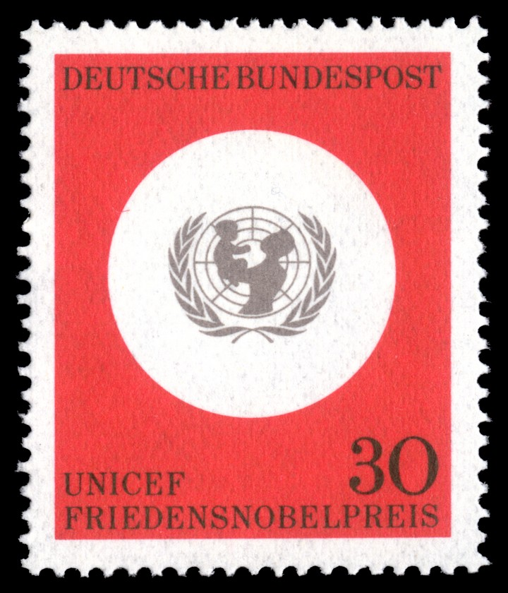 Nobel prize for Peace for UNICEF at the 20th anniversary of the organization